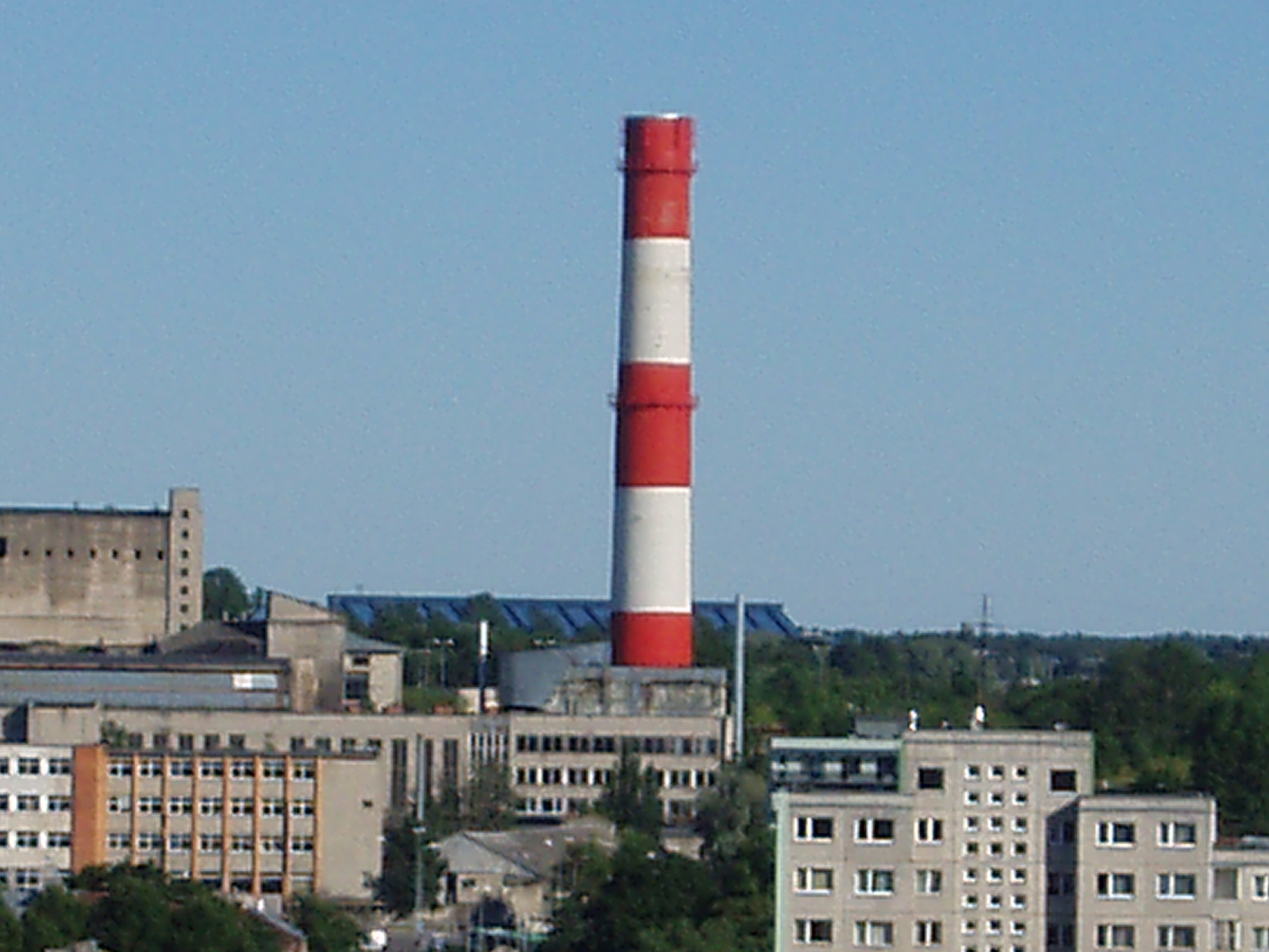 Chimney of Uelemiste Boiler House Tallinn 02 August 2011